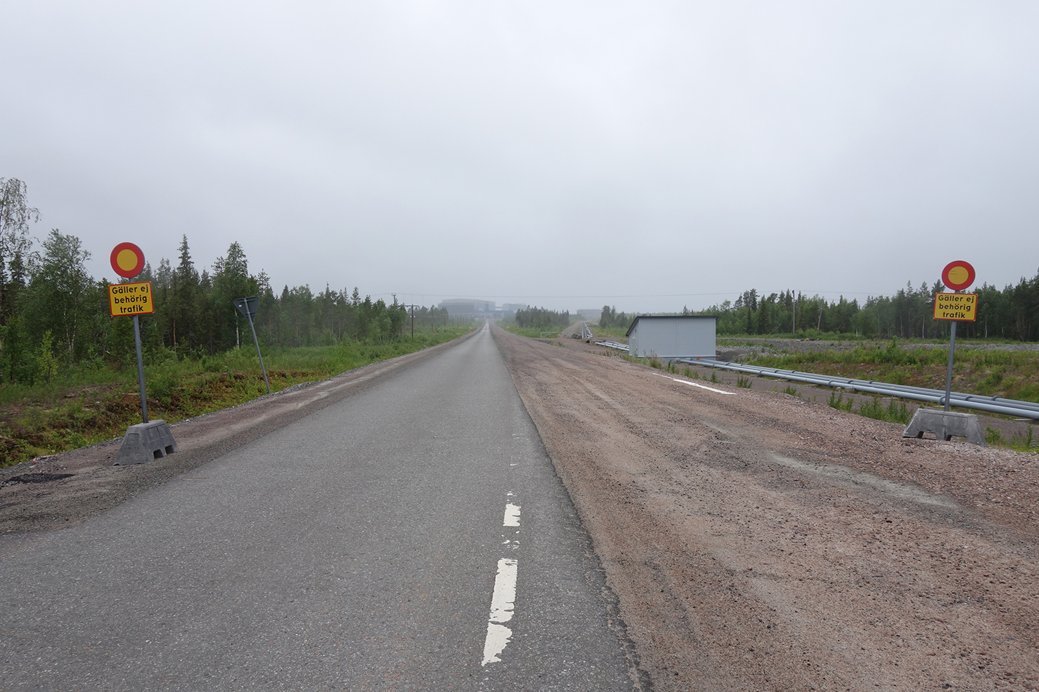 The road from the abandoned Tapuli mine near Kaunisvaara in Pajala Municipality, northern Sweden. The mine was owned by Northland Resources, which decleared bankruptcy in 2014.